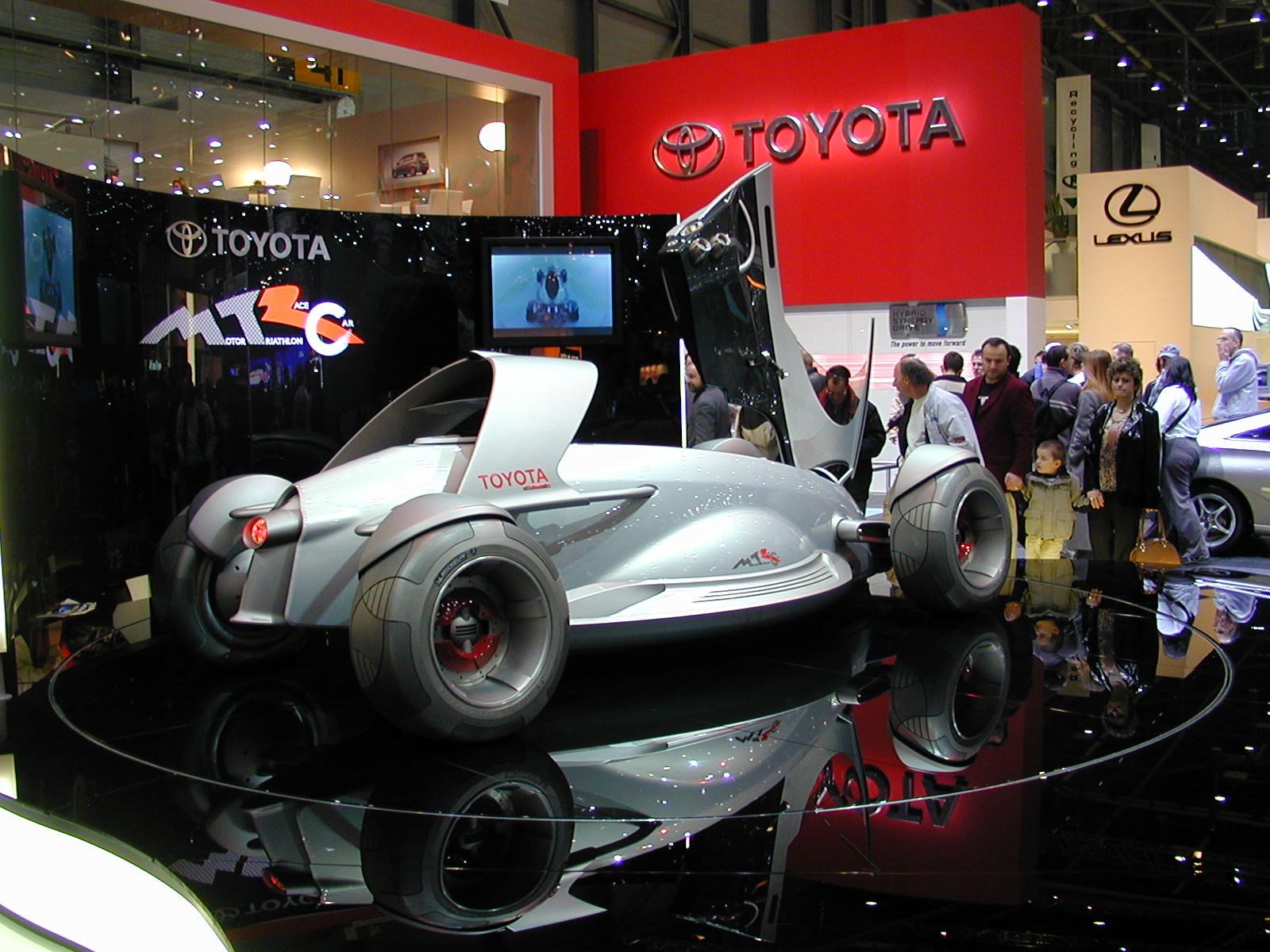 Salon de Genève 2004 SAG2004 172 Toyota Prototype